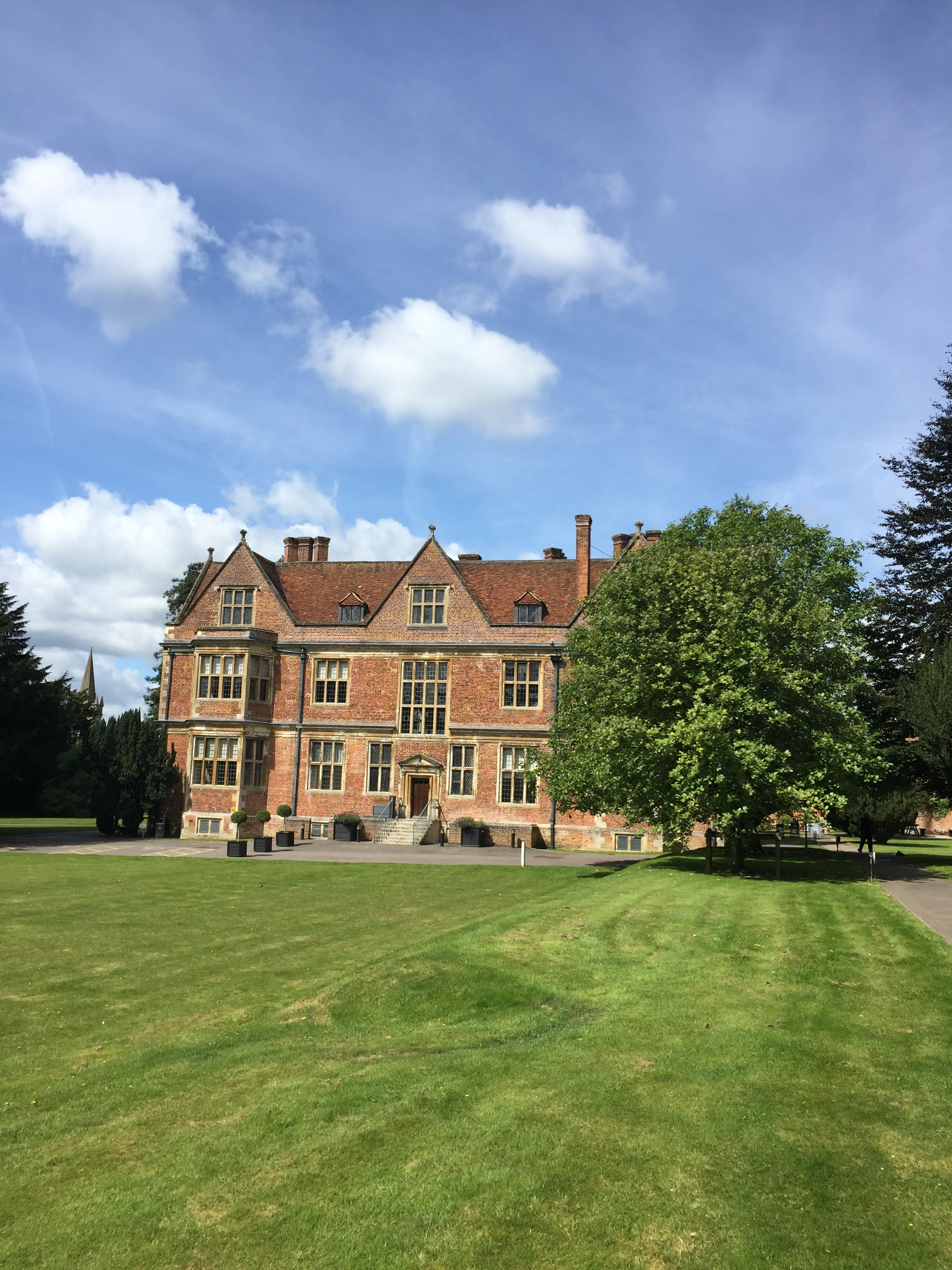 Shaw House, near Newbury (Berks) - showing the side view of the house